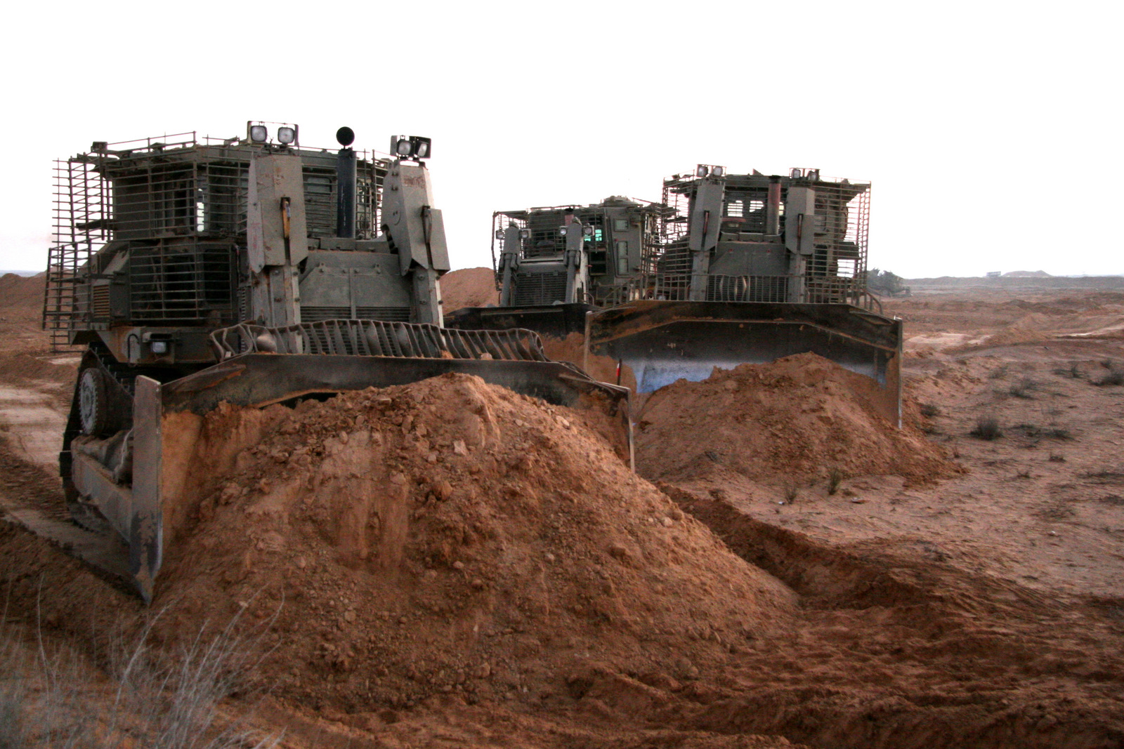 November 22, 2011 The IDF Caterpillar D9 is an armed bulldozer used for repair work. The Combat Engineering Corps is in charge of operating this machine. The 'Tzama' Unit- a specially designated unit within the corps specializes in the use of this equipment. This drill was held near the Gaza border where most of the D9 work takes place. Its armored frame keeps the soldiers safe as they work along the Gaza border. The Israel Defense Forces Facebook • blog • Twitter